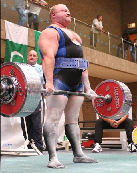 IPF World Champion Dean Bowring performing the three Powerlifting moves at the 2005 Commonwealth Powerlifting Championships